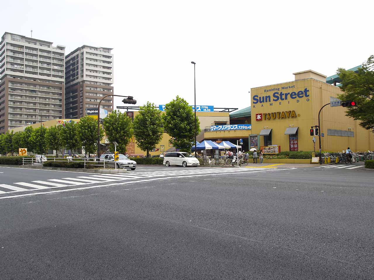 View from Sun Street Kameido from northwest side with ground level